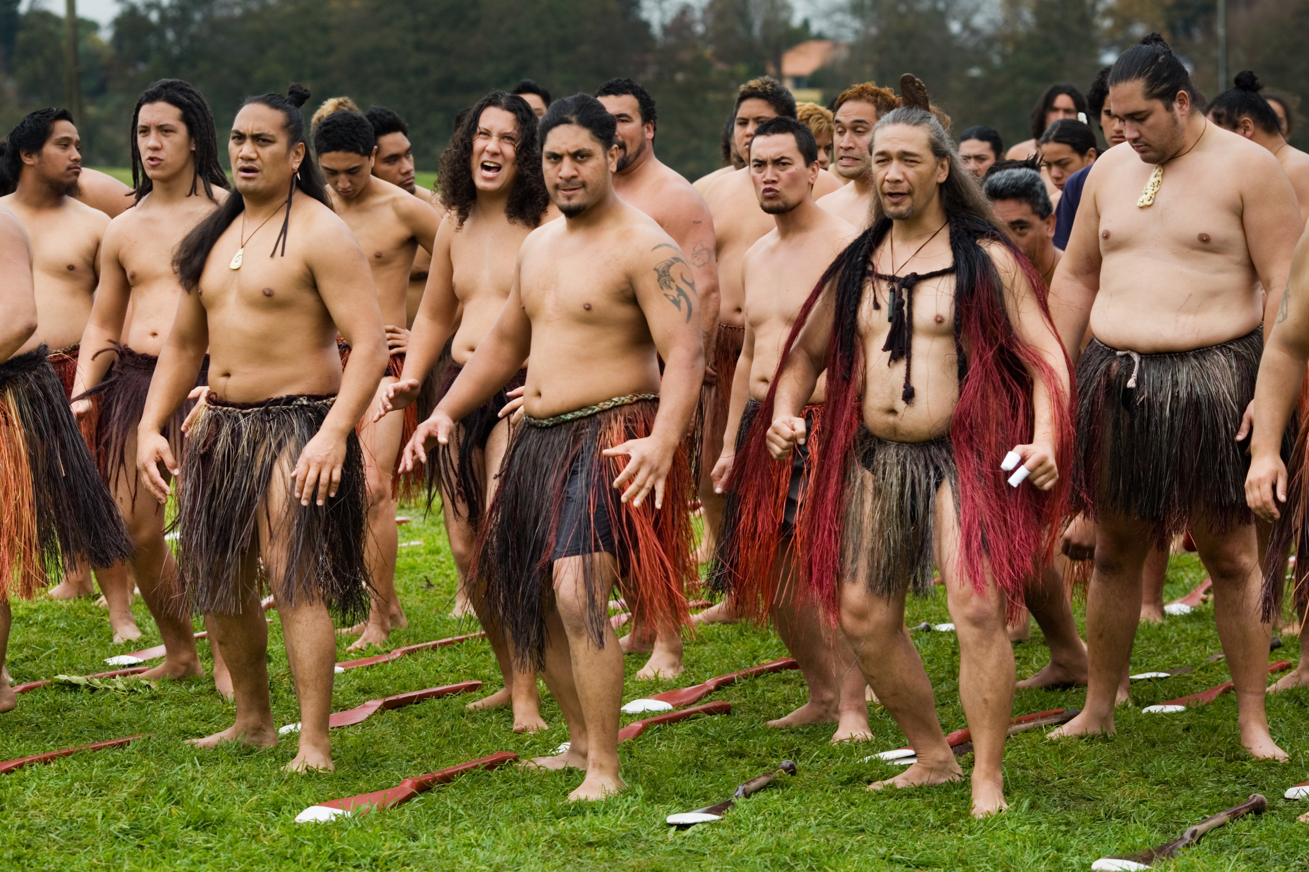 New Zealand Maori rowing ceremonial coreography